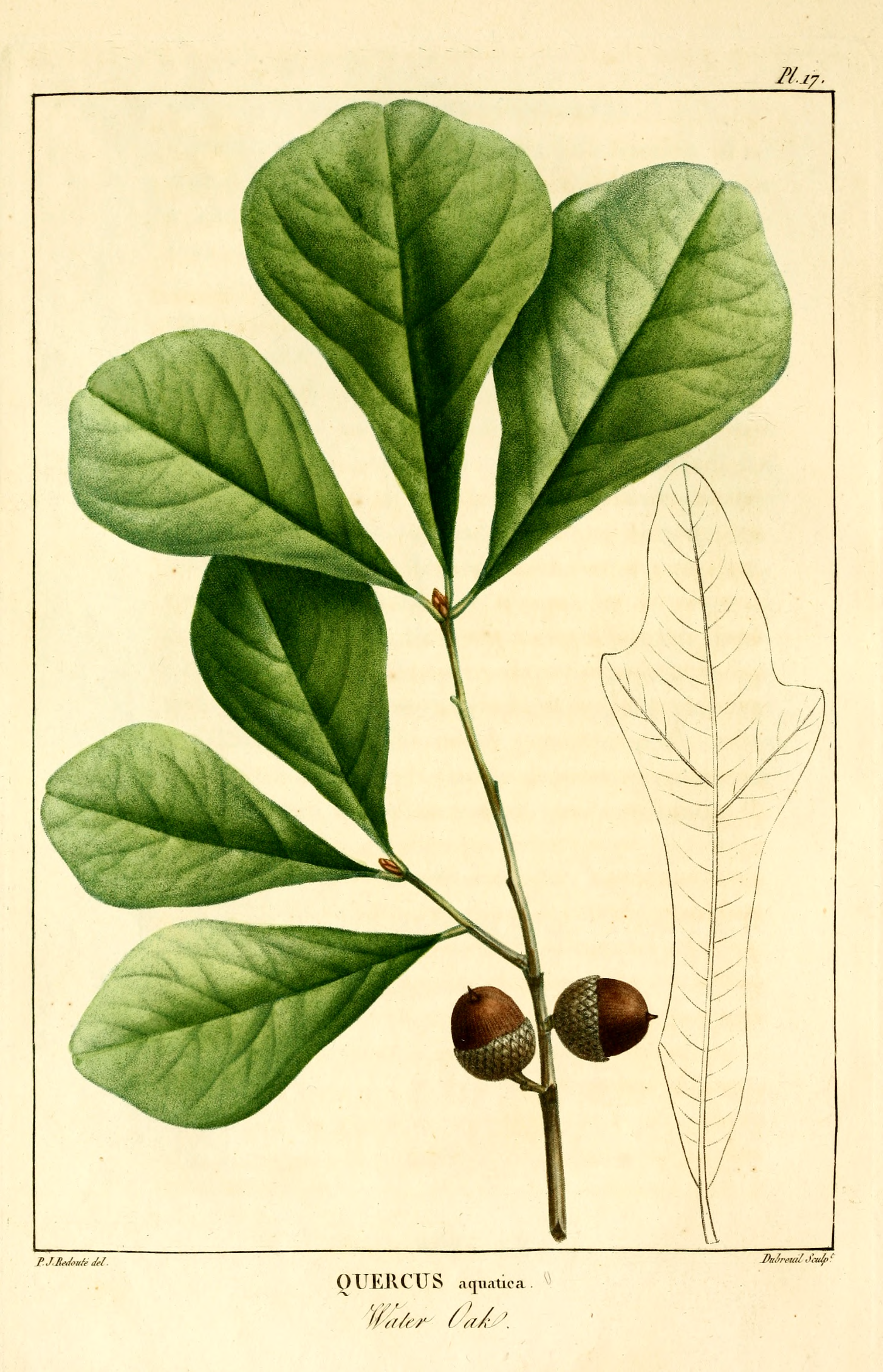 Plate from Histoire des arbres forestiers de l'Amérique septentrionale: Quercus nigra - water oak.Original caption: Quercus aquatica. Water Oak.